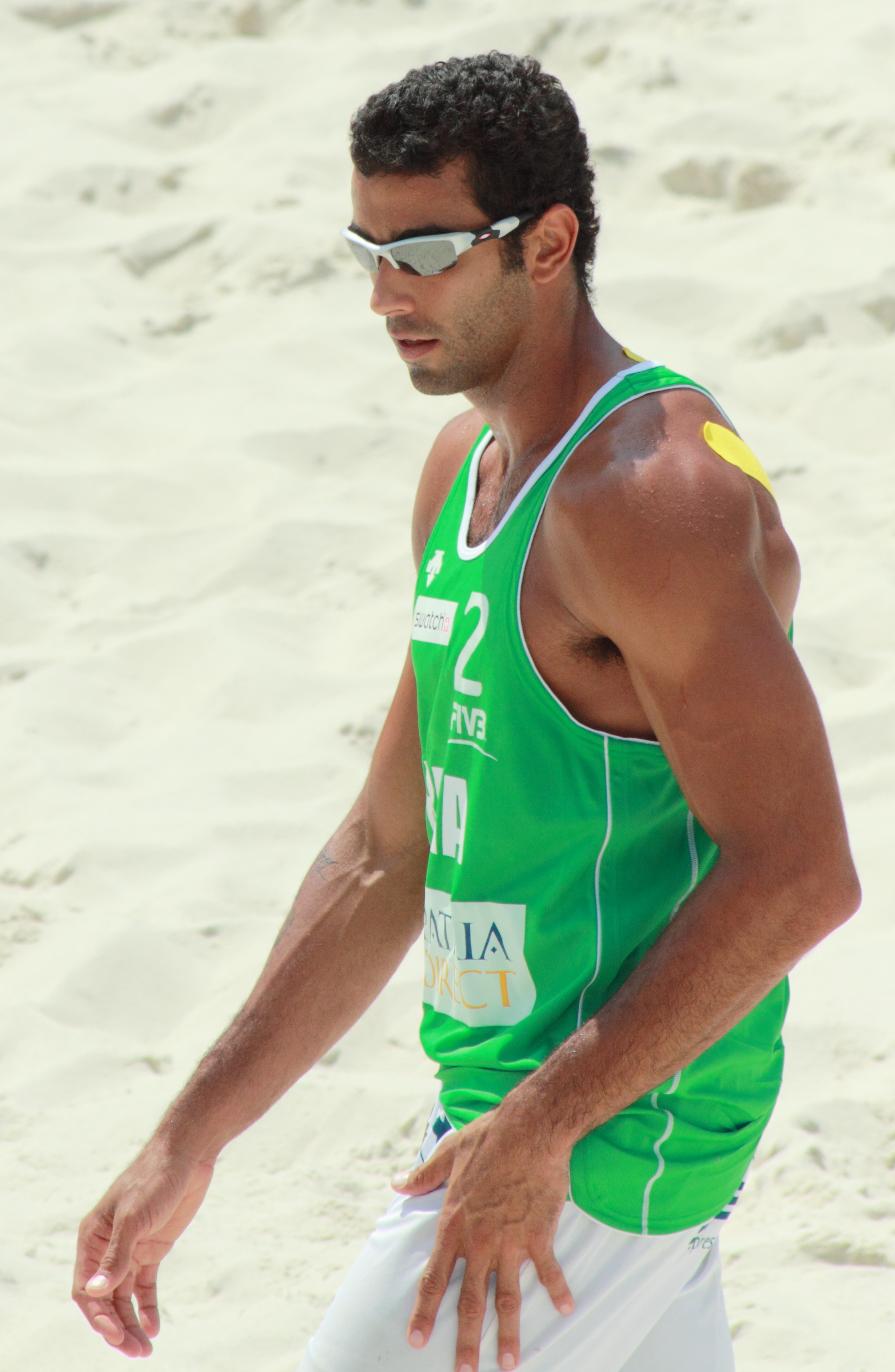 Pedro Salgado at Patria Direct Open 2011